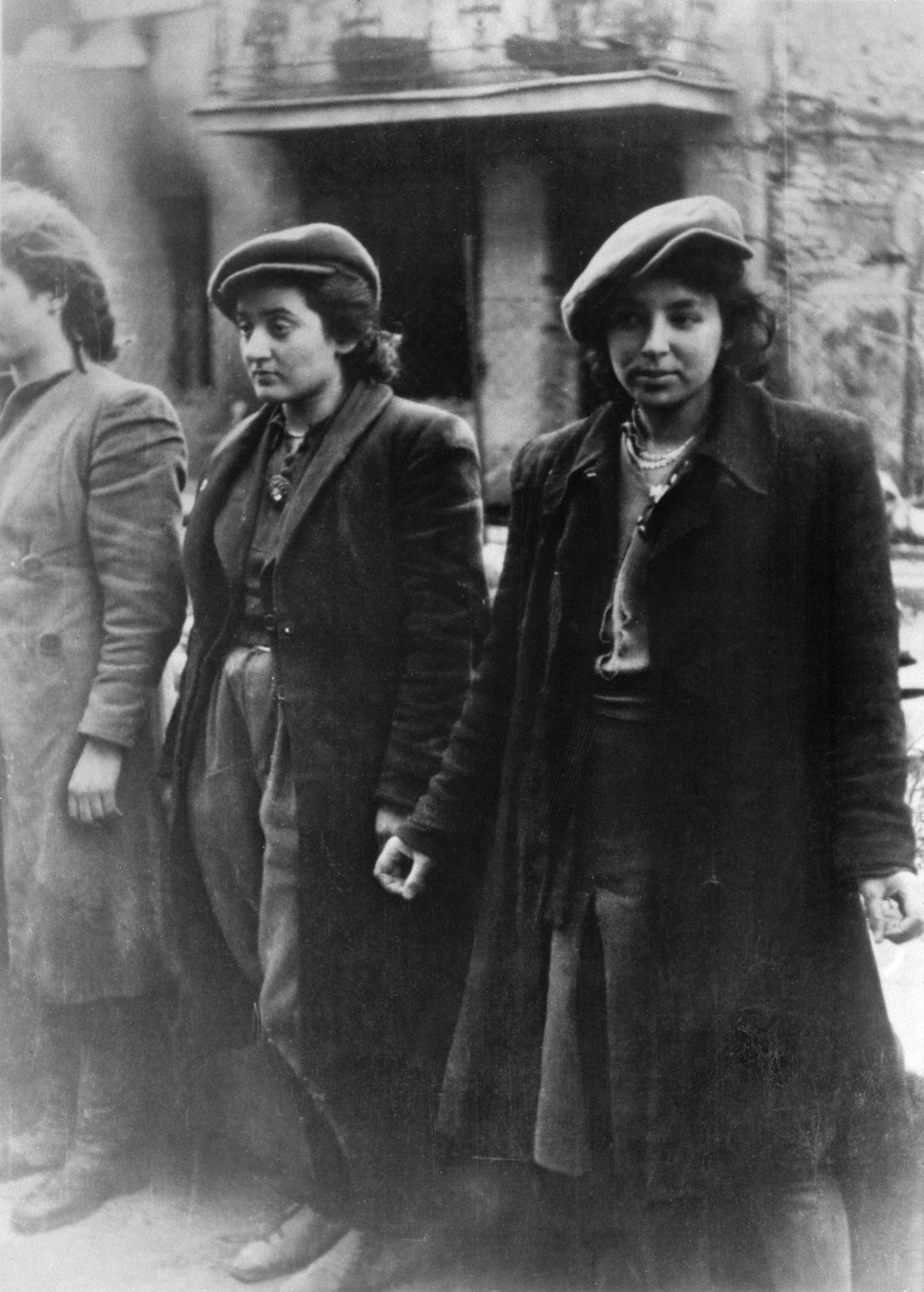 Stroop Report: a report written by Jürgen Stroop for Heinrich Himmler about liquidation of Warsaw Ghetto in May 1943.